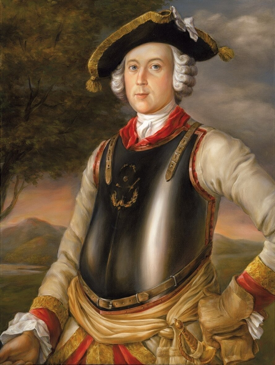 Portrait of Baron Münchhausen as a Cuirassier in Riga.